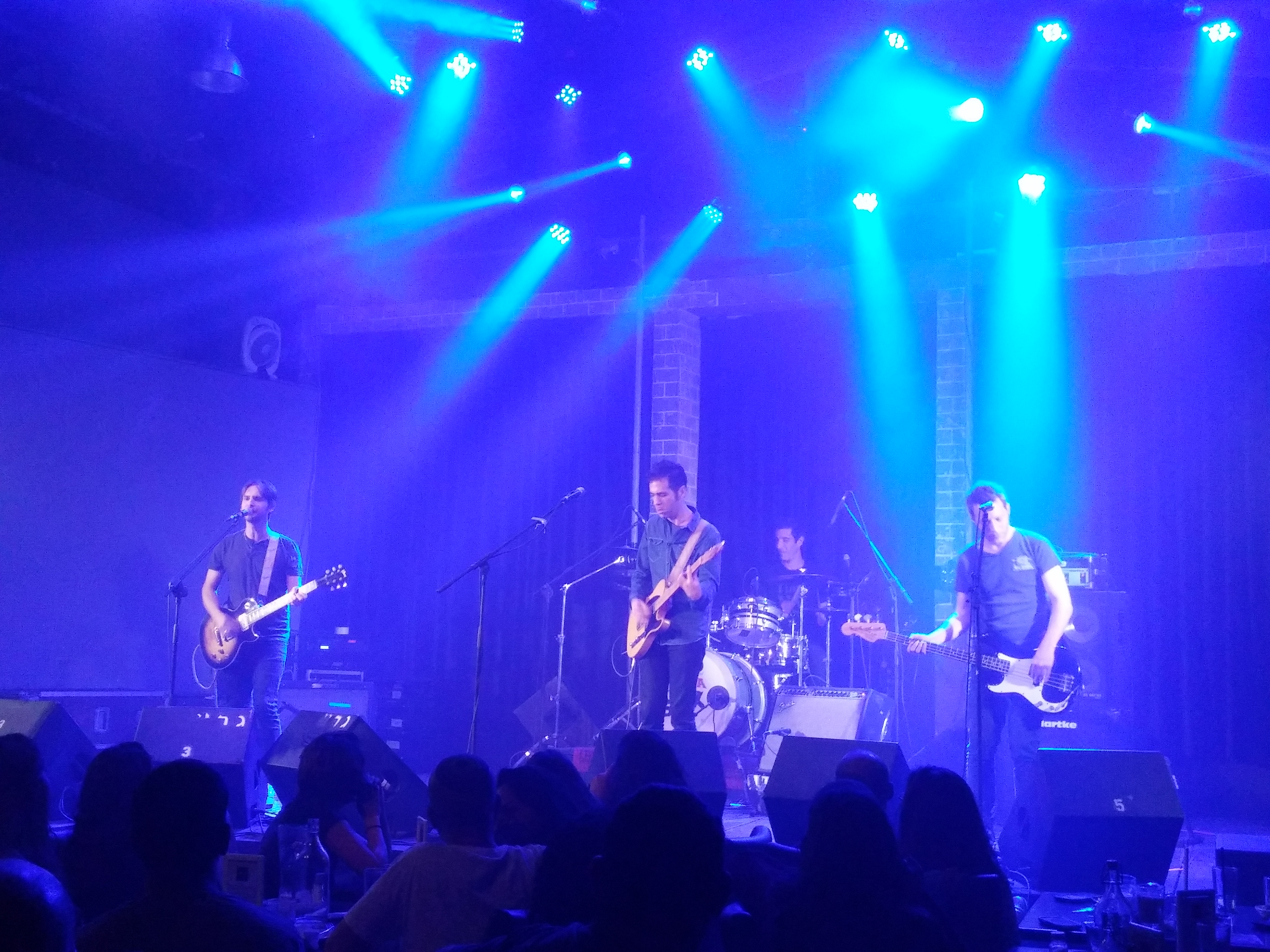 Monica Sex (Hebrew: מוניקה סקס; also spelled Monika Sex) is an Israeli rock band that is very popular among young fans and the contemporary music scene.